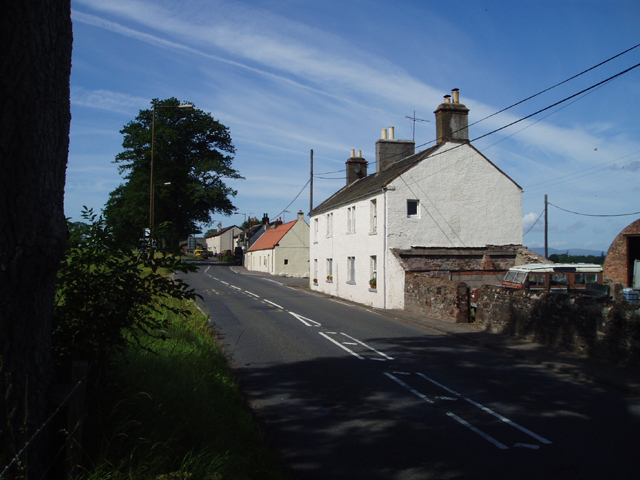 Arnprior. A small village on the A811 between Stirling and Buchlyvie.